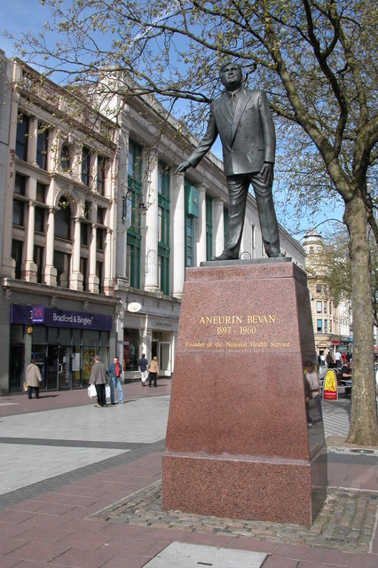 Statue of Aneurin Bevan, Cardiff Aneurin Bevan was a prominent Labour politician of the 1940s and 50s.